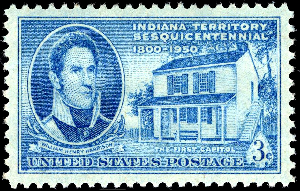 Image of U.S. Commemorative Stamp